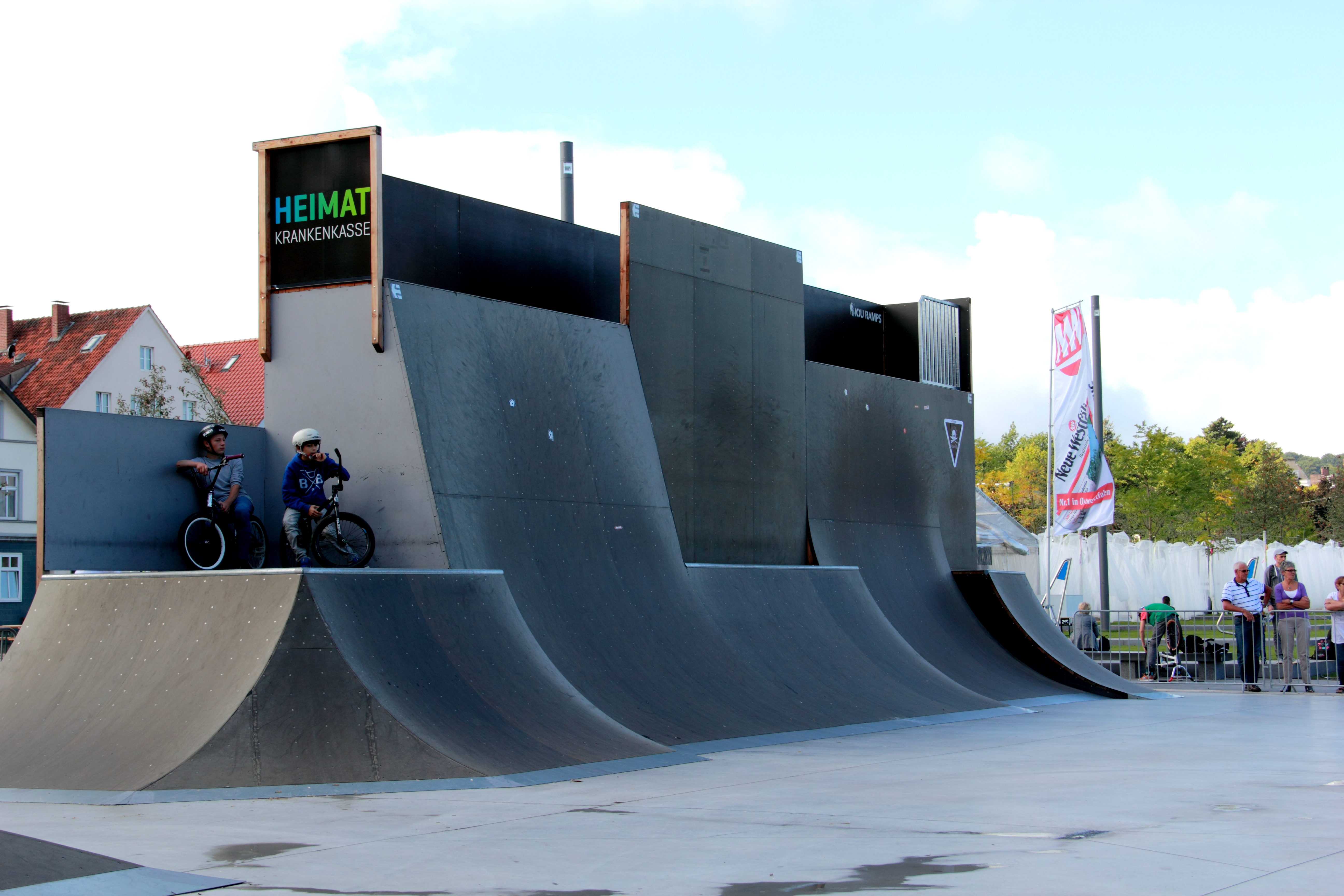 One of the ramps of the new Bike- and Skatepark Kesselbrink in Bielefeld